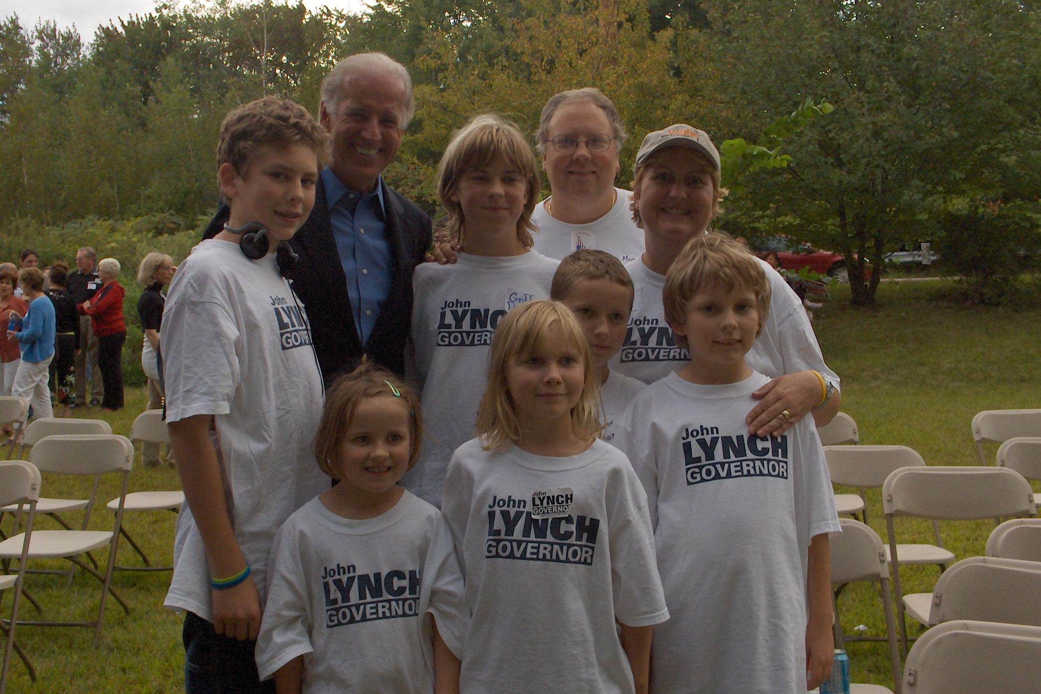 See where this picture was taken. [?]